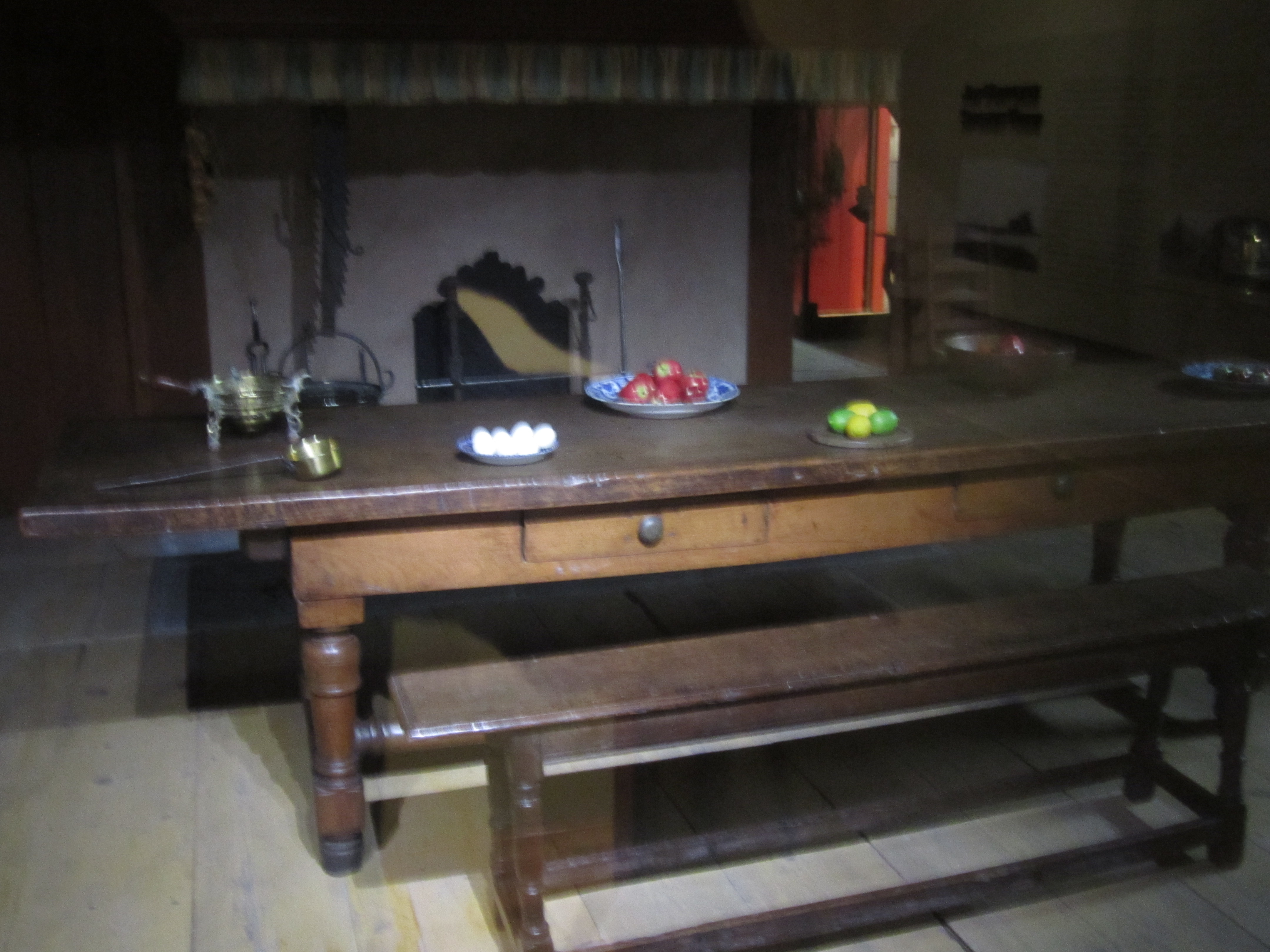 I took photo of dining table of early Brooklyn at the Brooklyn Museum, using a Canon camera.